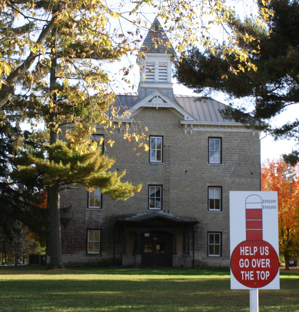 Looking north at the old Main Hall for the defunct Galesville College in Galesville, Wisconsin.